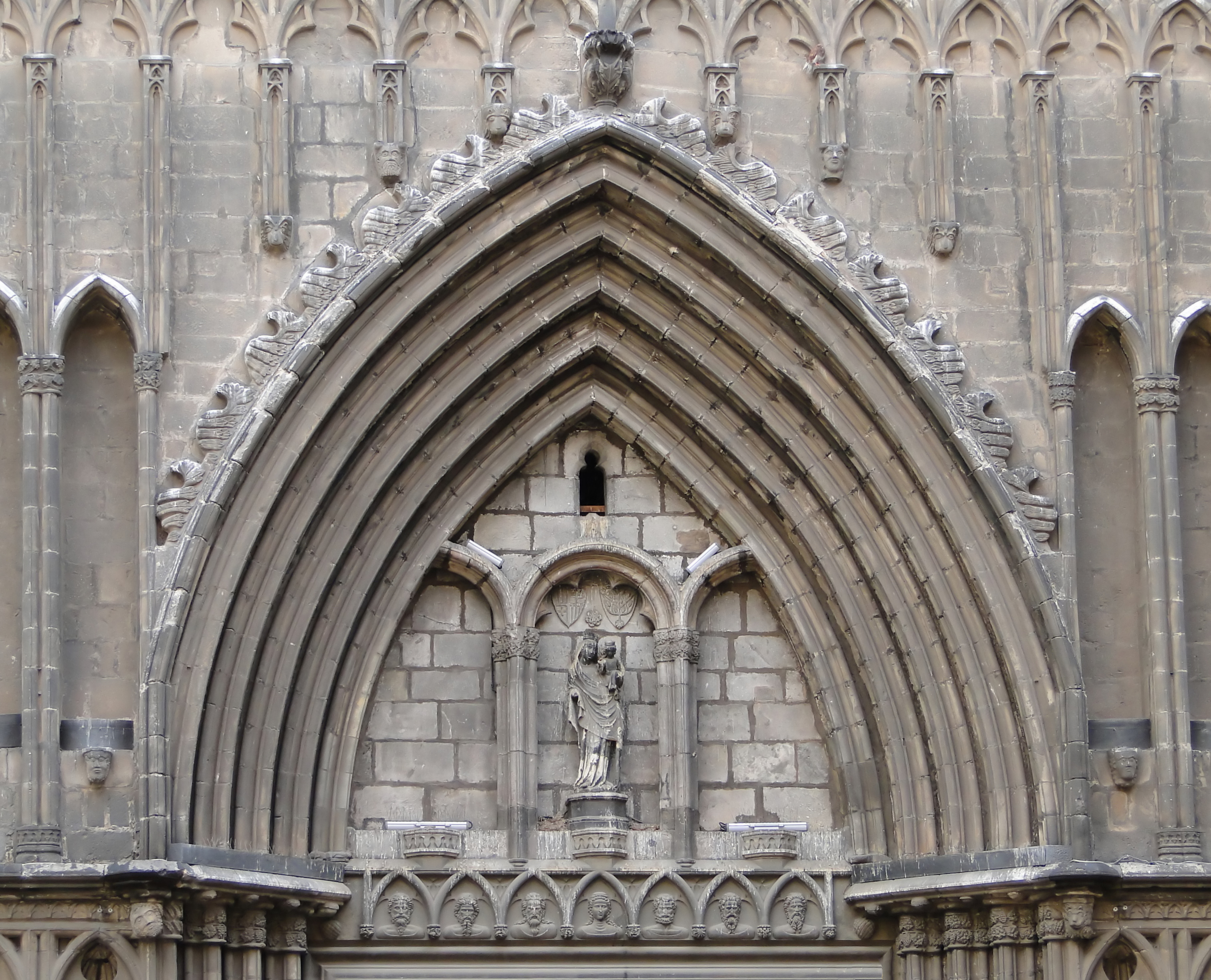 Tympanum of Santa Maria del Pi Church, Barcelona, Spain